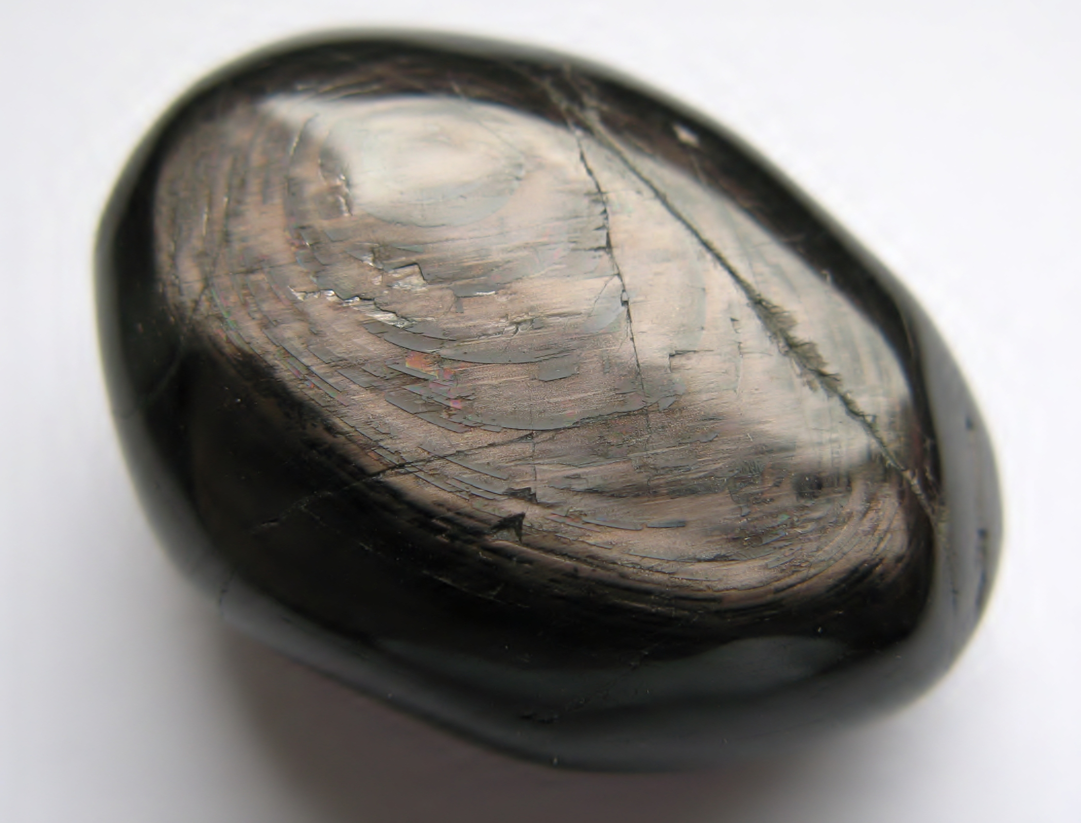 Hypersthene - mixed crystal out of the Enstatite-Ferrosilite-serial, tumble polished stone